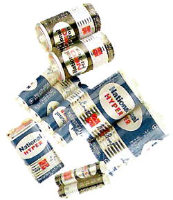 Self-taken